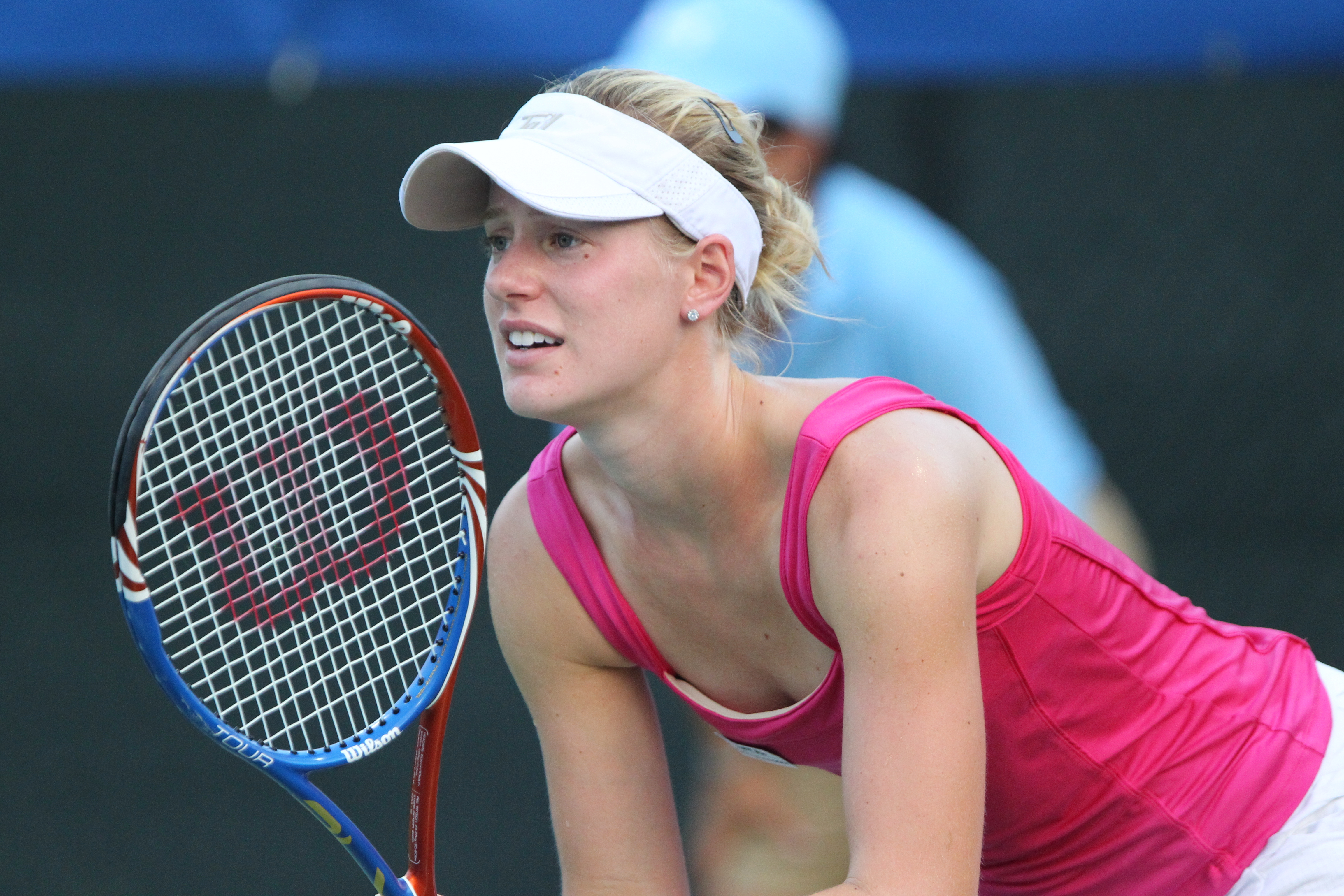 Citi Open Tennis July 28, 2011